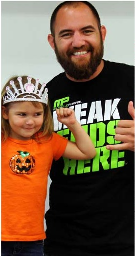 Browne visited Pendleton to meet with service members and their families, sign autographs and take pictures at the Marine Corps Exchange, Wounded Warrior Batallion and Paige Field House Sept. 17. Browne is a heavyweight fighter for the Ultimate Fighting Championship.